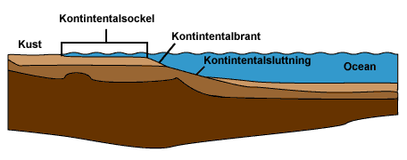 Cross-section of continental margin depicting the particular elements